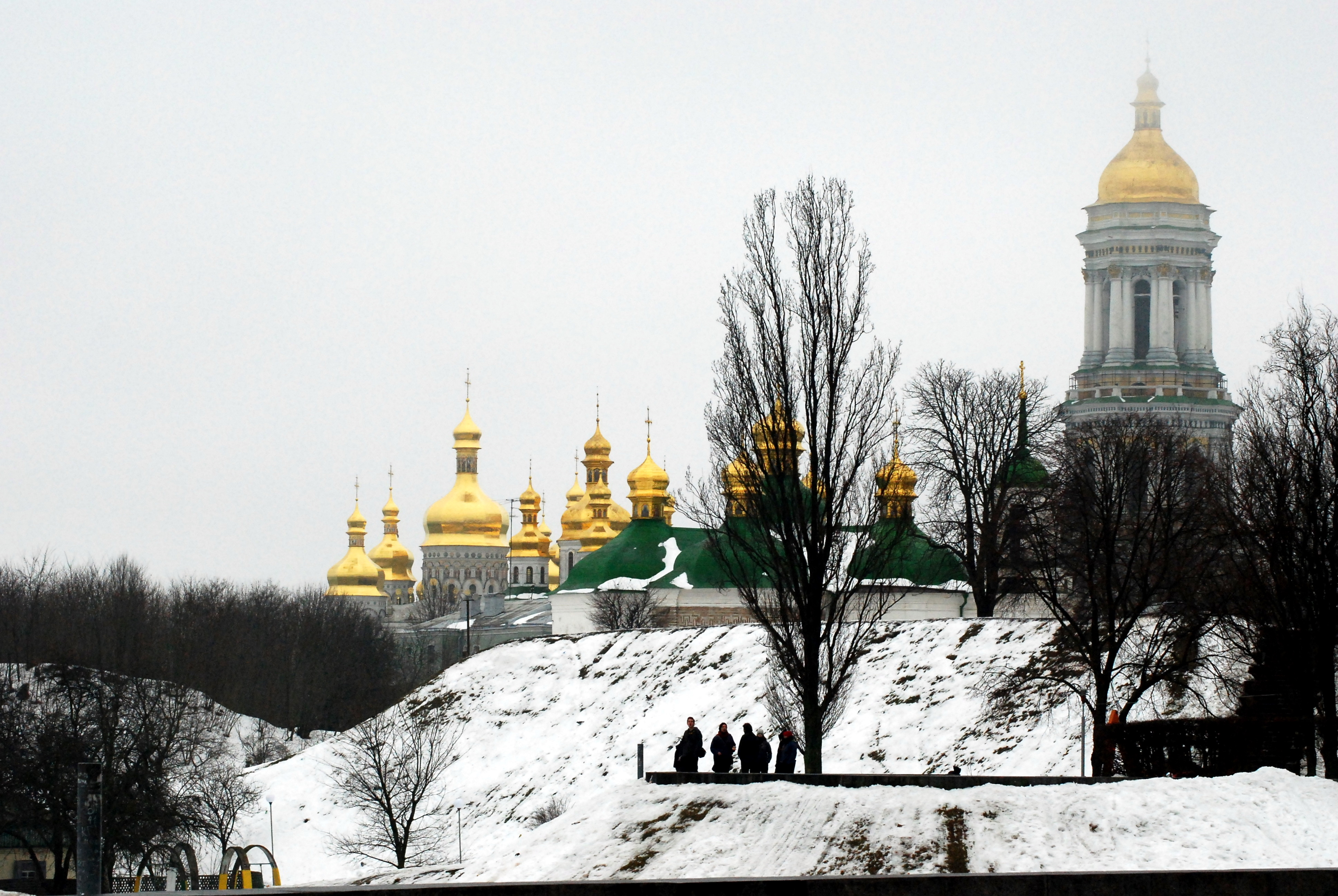 Yet another pic of Kiev-Pechersk Lavra